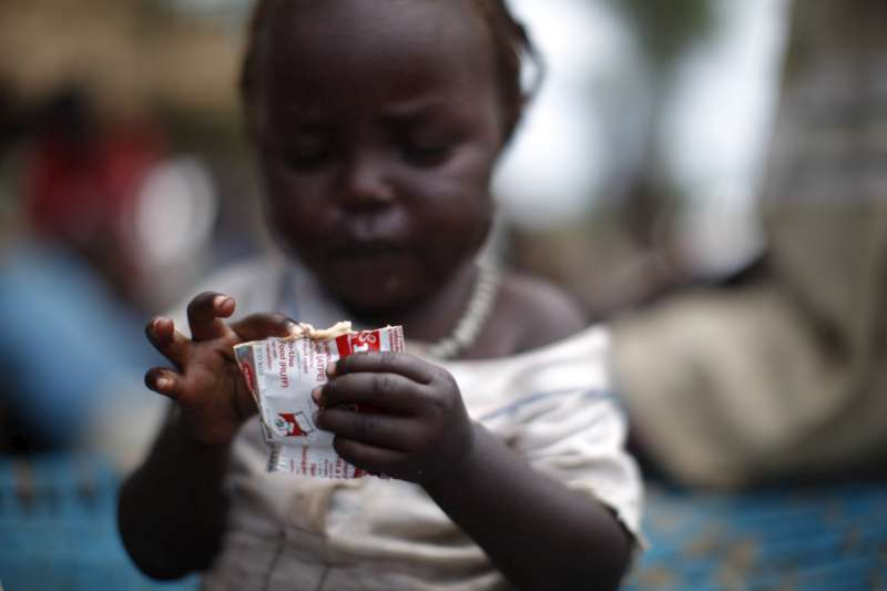 Plumpy’Nut